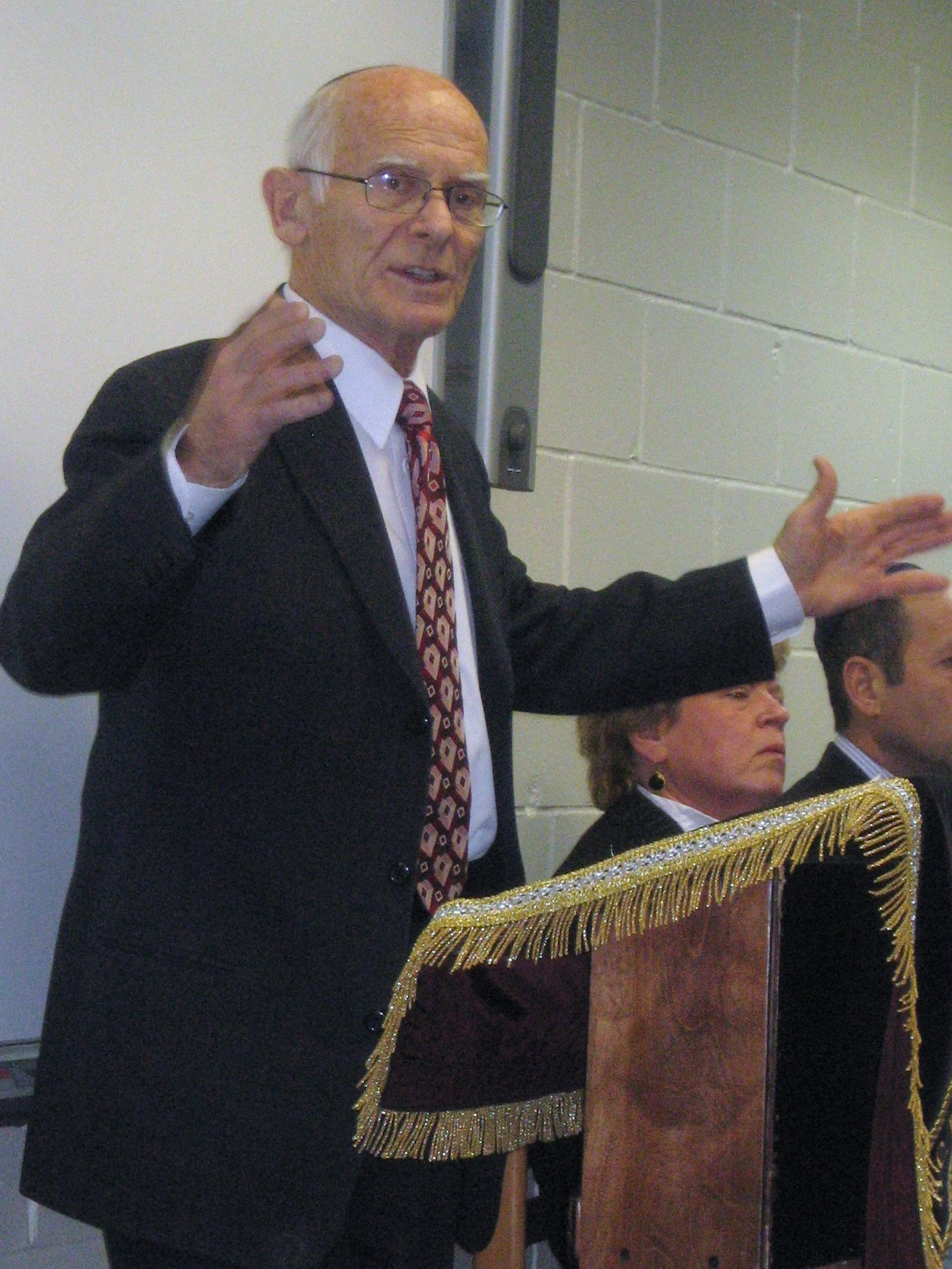 photograph of rabbi moshe gottesman speaking at the dedication of the learning center that was build in his honor. rabbi moshe gottesman knows that i took this picture and has given permission to use it.